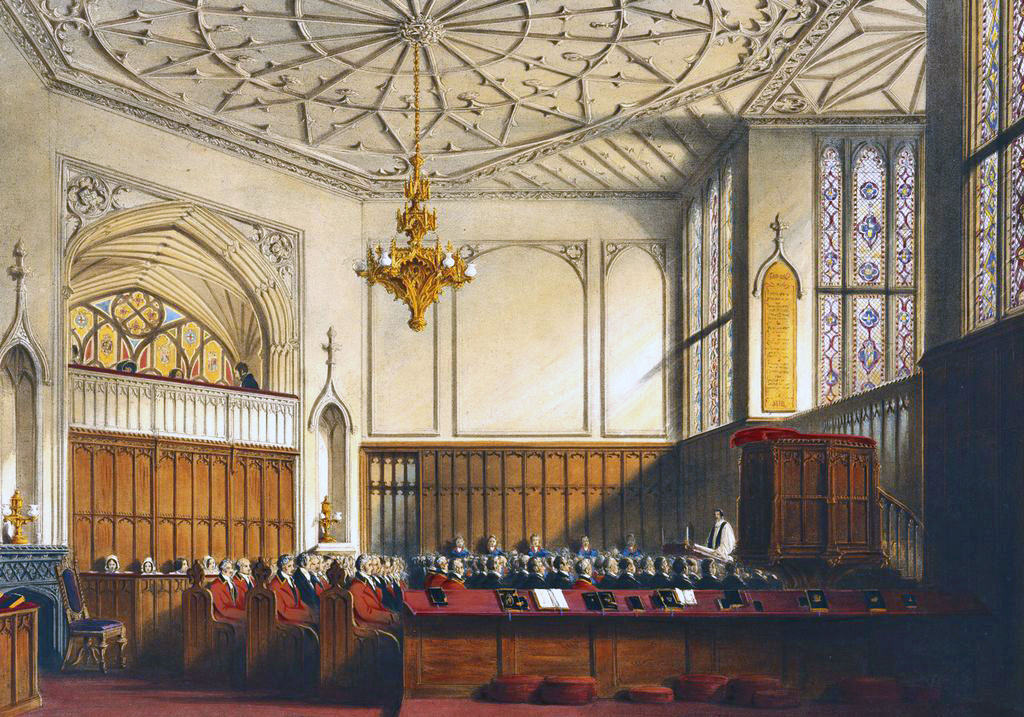 A colour lithograph of the Private Chapel, Windsor Castle, England.